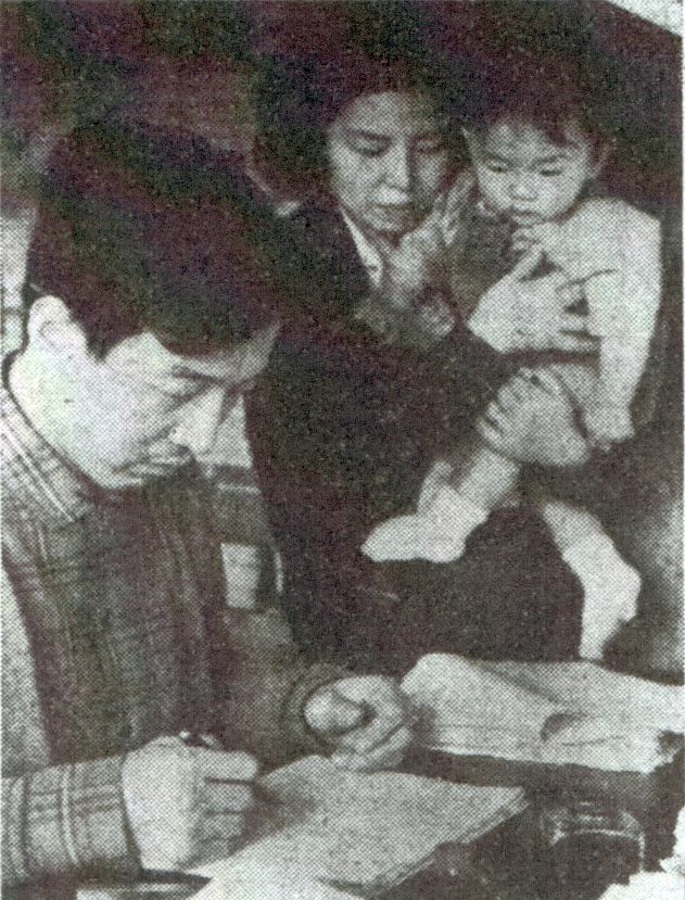 Shichihei Yamamoto and his family